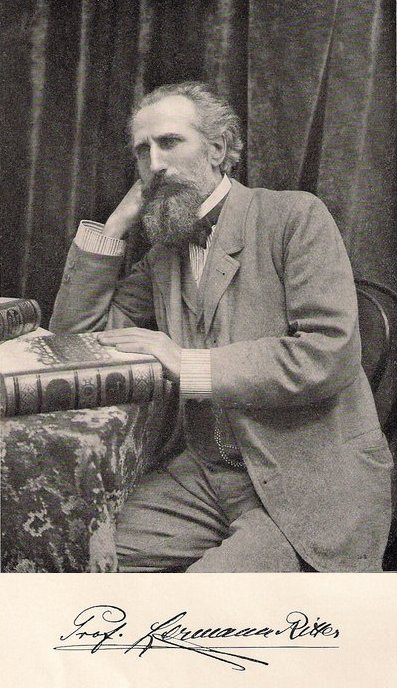 Photograph of Hermann Ritter (1849–1926)